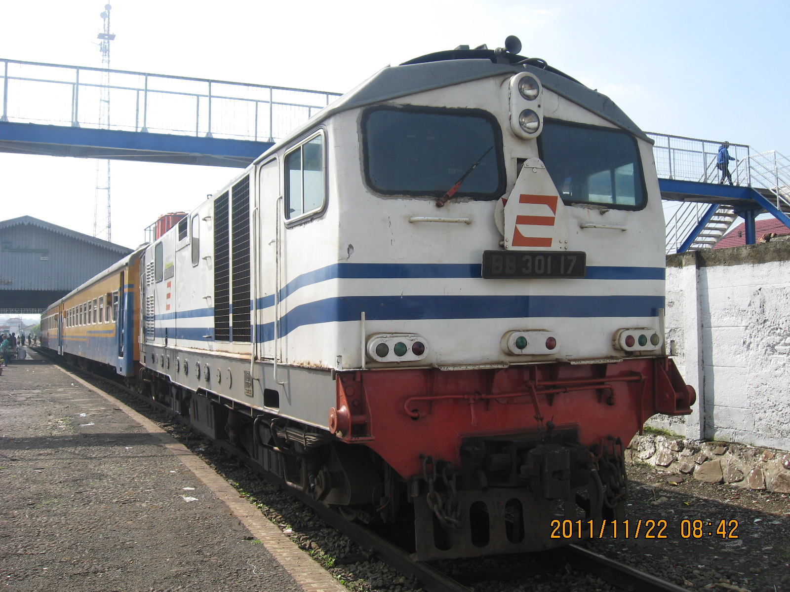 BB 301 17 preparing to haul local train to Cianjur.